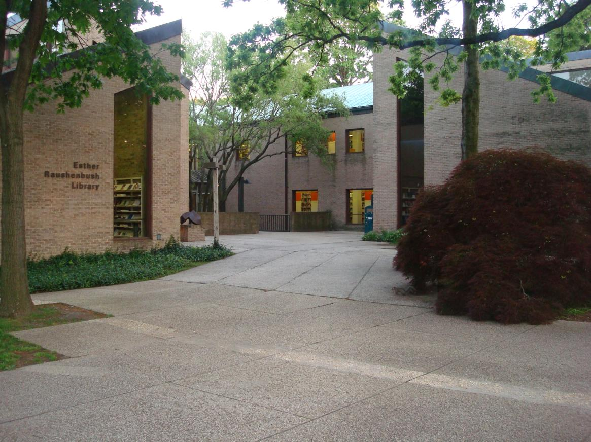 Library at Sarah Lawrence College in Bronxville, NY